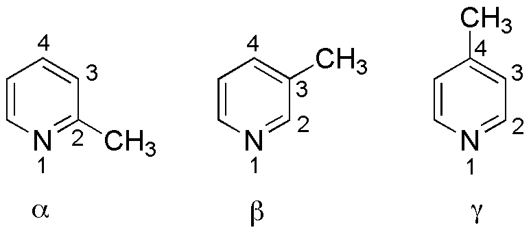 Molecular formulae of the three isomers of picoline (methylpyridine) Wikifrosch 16:02, 9 April 2006 (UTC)